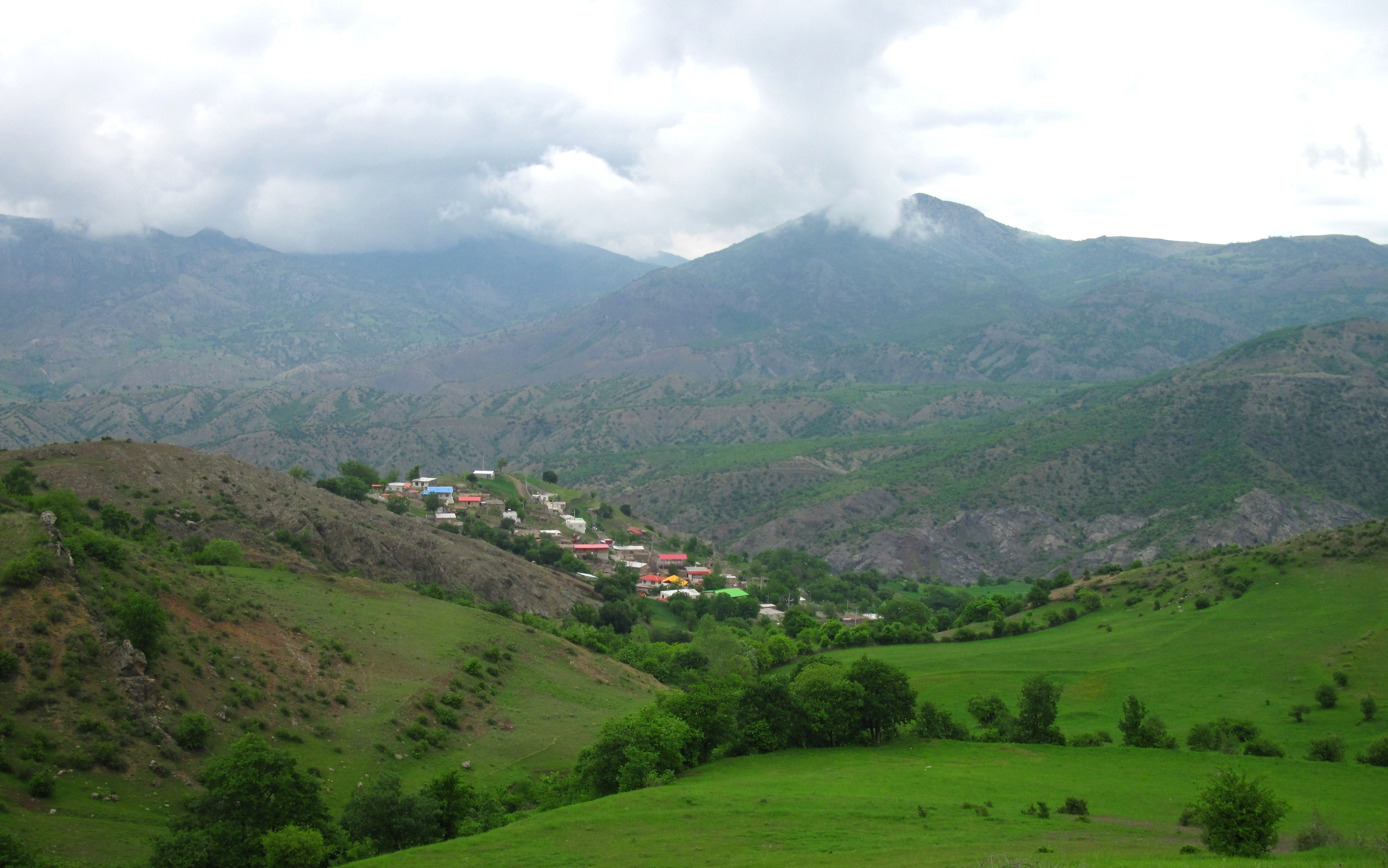 This photo of Alherd village in Arasbaran region was taken in spring of 2013.